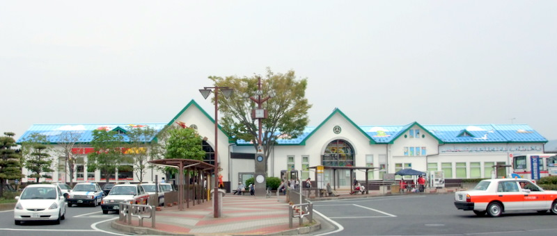 Ishinomaki Station in Miyagi Prefecture